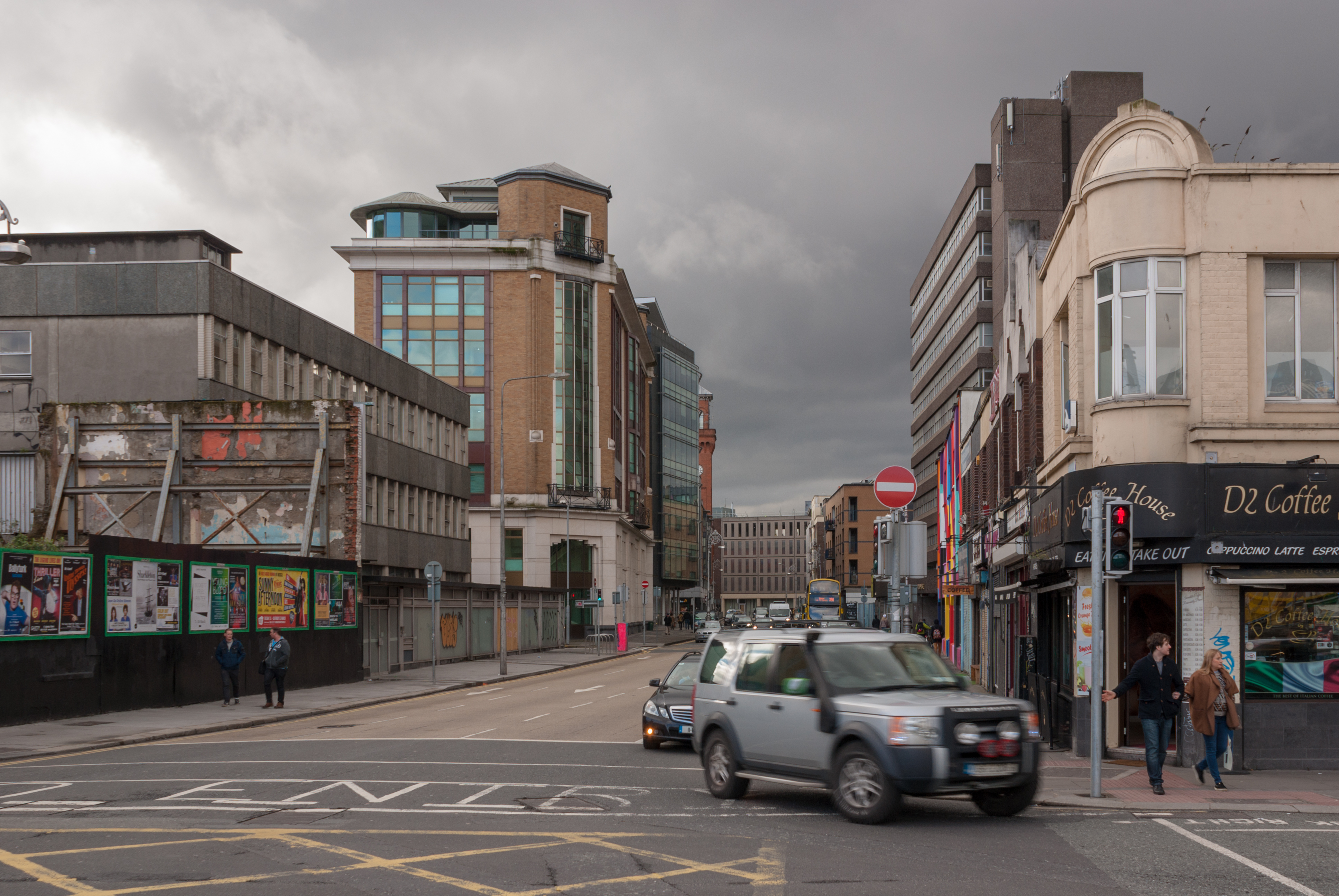 Intersection of George's Quay and Tara Street, Dublin